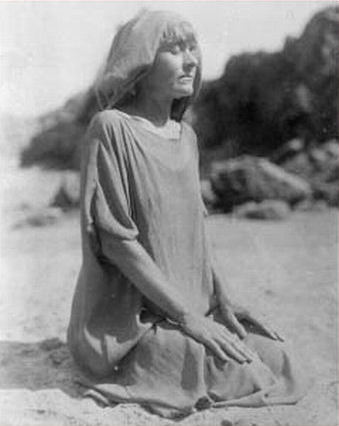 Jane Wolfe at the Abbey of Thelema in Cefalù, Italy.